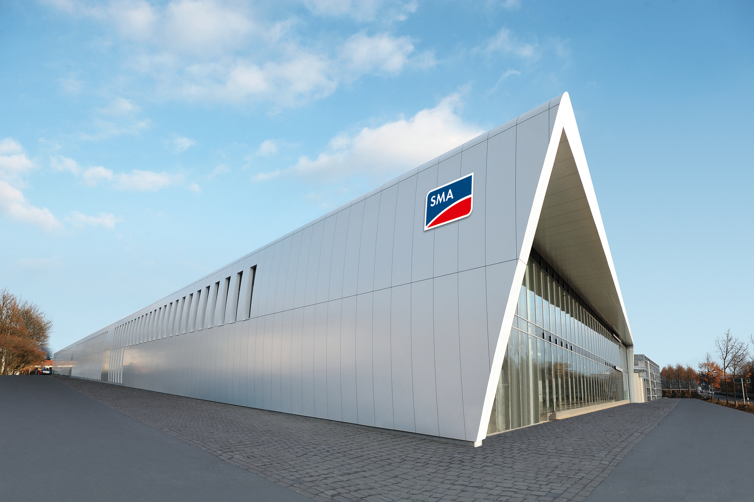 SMA Solar main 1